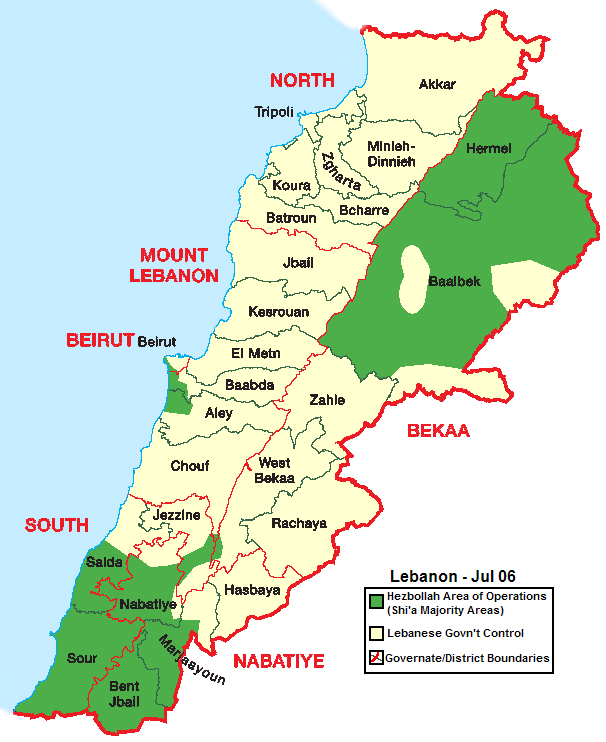 District map of Lebanon showing Shi'a majority areas where Hezbollah has influence